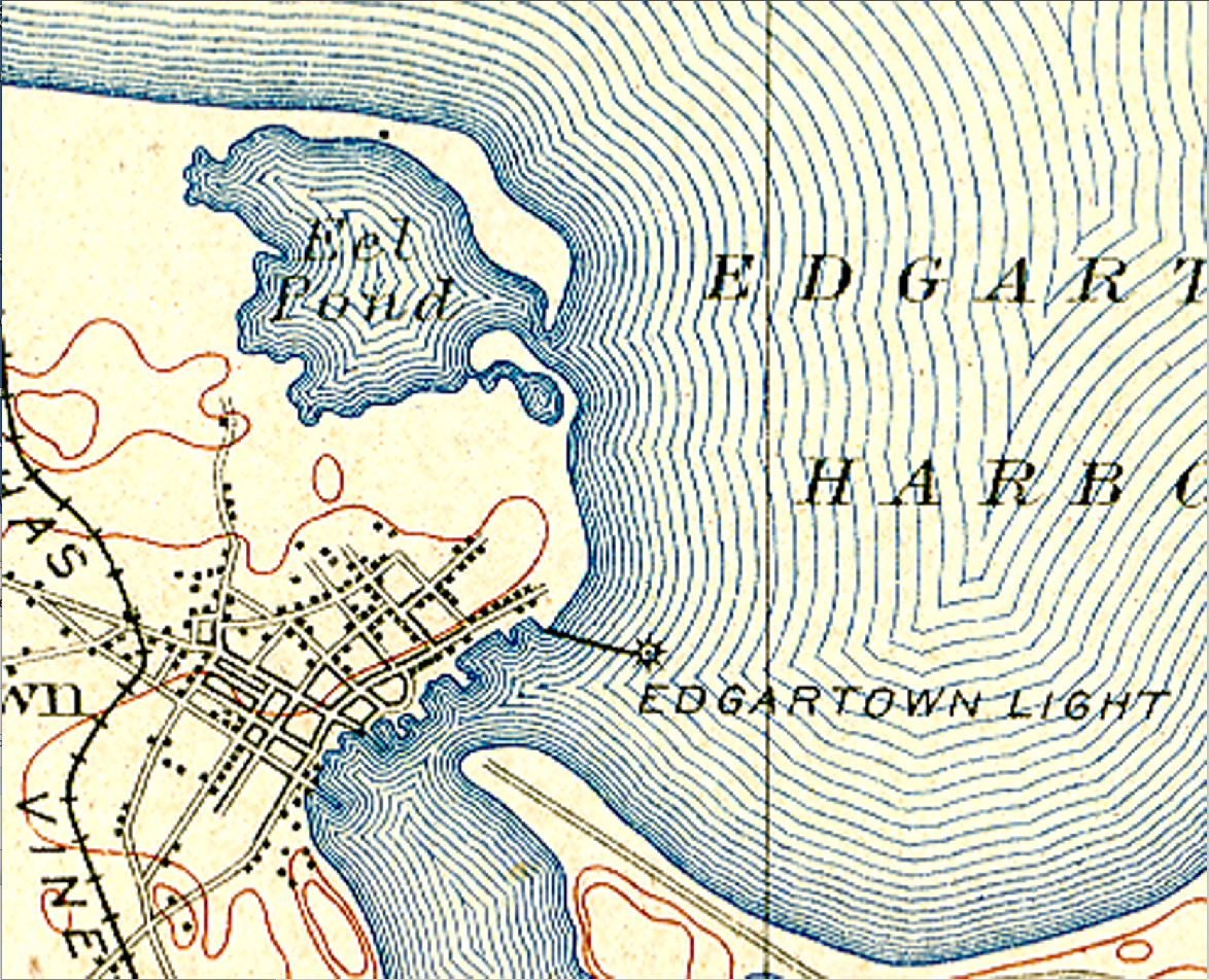 1908 United States Geological Service (USGS) topographic map depicting the Edgartown Light and surrounding vicinity. The map clearly illustrates Edgartown Light as being surrounded by water and connected to a point of land via the stone causeway first constructed in 1847. Located to the northeast of Edgartown Light is Eel Pond as it existed in 1908 with its massive barrier beach. A series of hurricanes in the 1950s destroyed the Eel Pond barrier beach. The destabilized Eel Pond sands were carried by the prevailing southeasterly littoral drift toward Edgartown Light. Due to oceanic current and tidal influences, a large volume of these sands were deposited in the location surrounding the Edgartown Light. This configuration of beach surrounding the Edgartown Light continues to exist today, even though it has slowly experienced erosion since the 1950s. Also shown in this USGS topo map is the sparsely populated Town of Edgartown with a railroad track system crossing the town's west side. This railway was created by developers to transport prospective buyers from the Oak Bluffs steamship ferry terminal to view subdivided lots-for-sale located near South Beach in Katama.